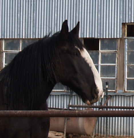 Shire-Head with Roman nose